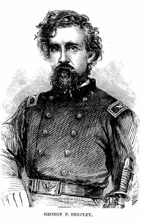 General of the US-army (Union) und (military-)Gouverneur of Louisiana George Foster Shepley (1819-1878)